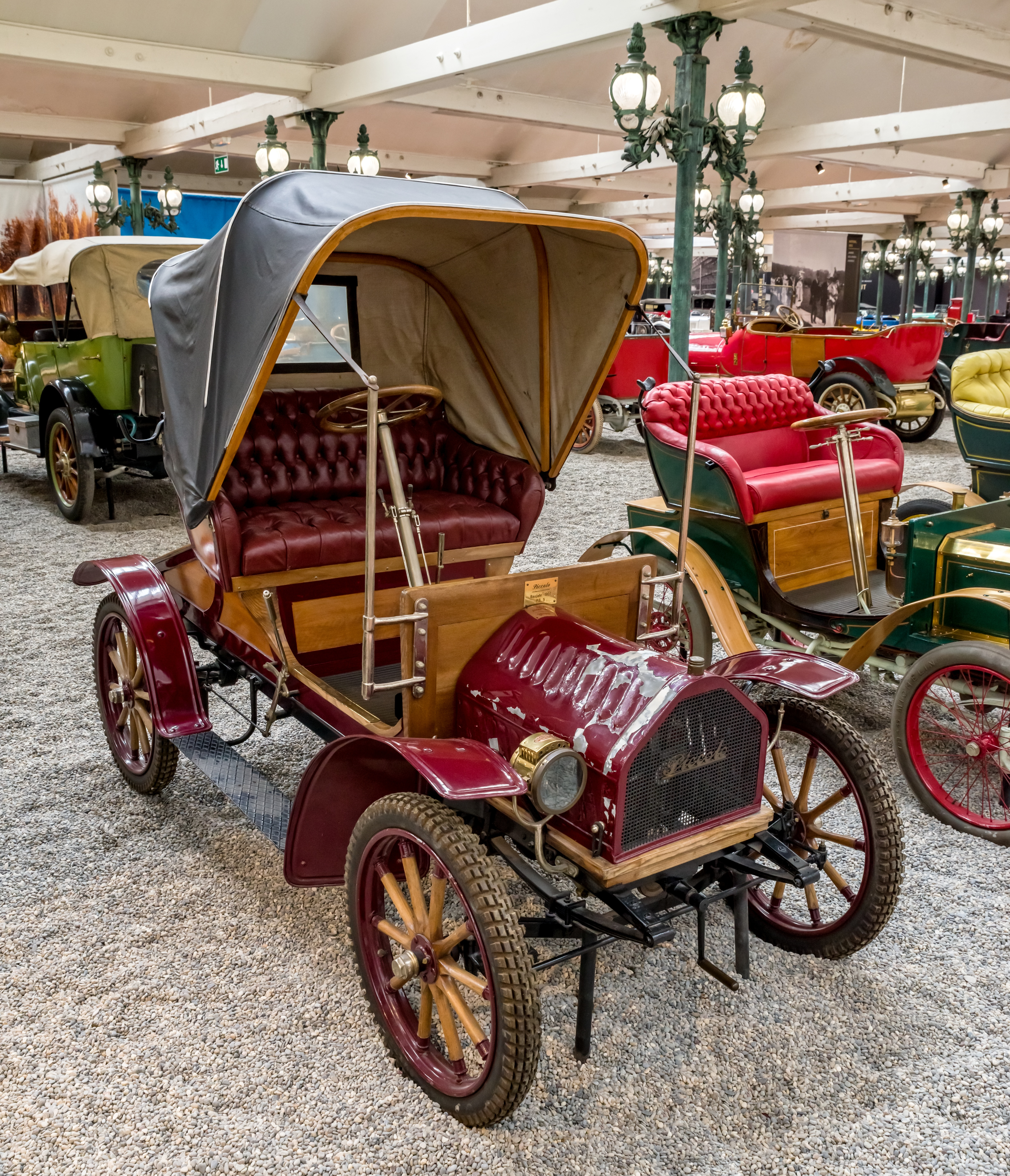 pictures from the Cité de l’Automobile – Musée National – Collection Schlump in Mulhouse, France ptictures from the 10. may 2018